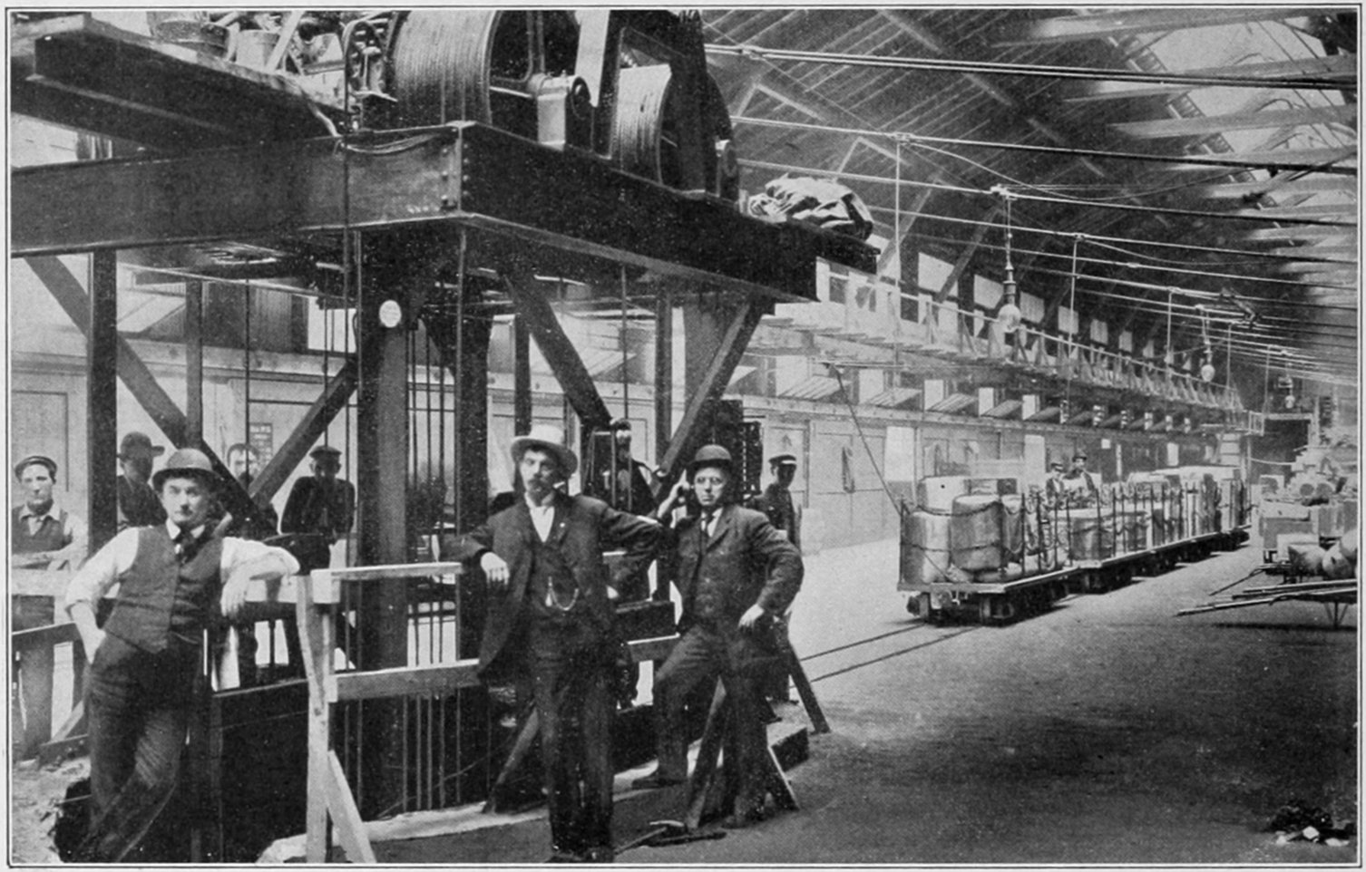 Original caption: "OPENING OF CHICAGO SUBWAY FOR FREIGHT TRAFFIC In the Chicago Milwaukee & St. Paul freight house, where the first train operated by the Illinois Tunnel Company was received." On July 7, 1905, an 11 car train was dispatched over the 2-foot (61 cm) gauge tracks of the Illinois Tunnel Company from the Erie freight house. These 5 cars were delivered to the Milwaukee freight house. The elevator in the foreground goes down to the tunnel.